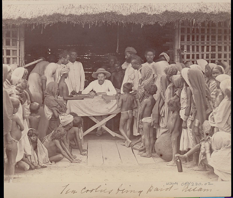 Assamese tea coolies being paid by European man in entranceway of pole structure with thatch roof.